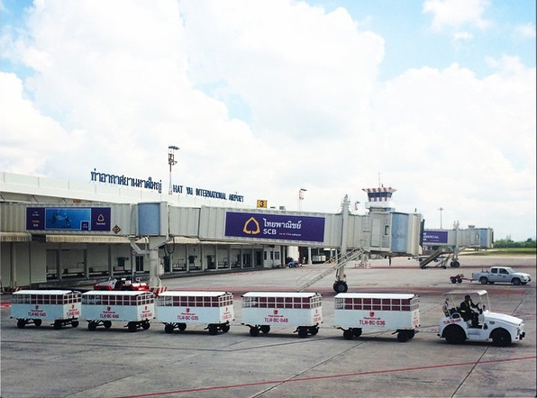 Jet Bridge at HDY